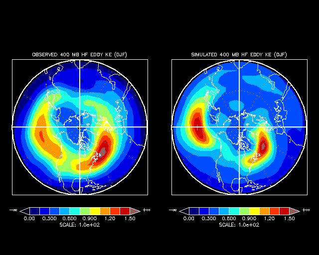 Observed (left) and simulated (right) 400 mb high-frequency eddy kinetic energy for Dec-Feb. Units are m**2 s**-2. The observations are calculated from 1-8 day high-pass filtered winds for the nine winter period starting in December 1984. The simulation comes from the solution of a linear, stochastically forced two-level model, using a basic state consisting of Dec-Feb averaged winds for the period 1984-1993.